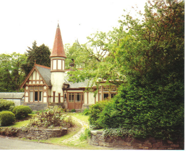 Victorian house, Strathpeffer.